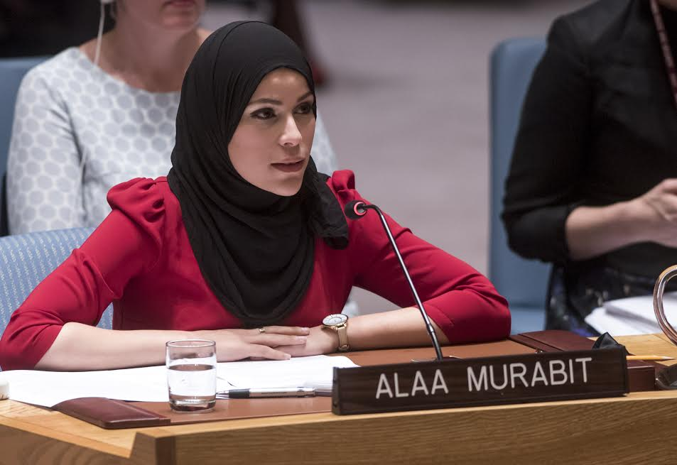 Intervention of Murabit, Alaa